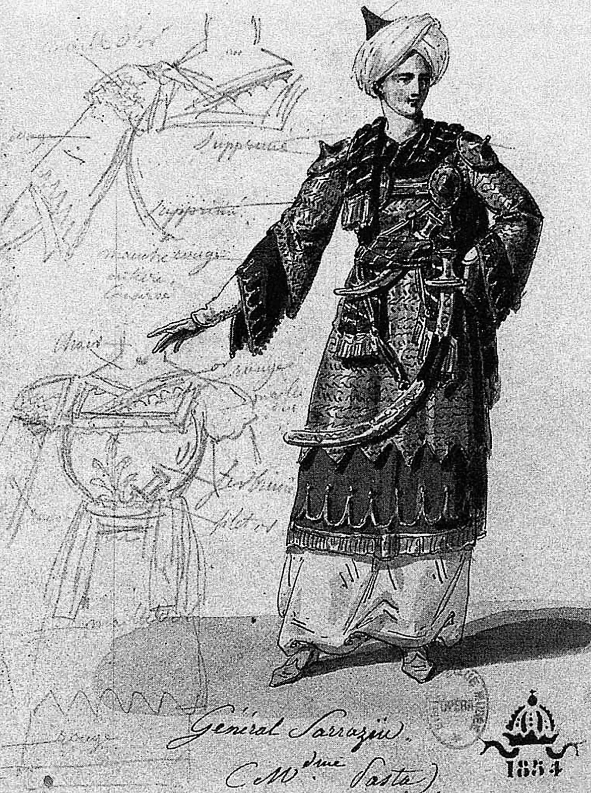 Costume design for the Paris production (1825) of Meyerbeer's Il crociato in Egitto